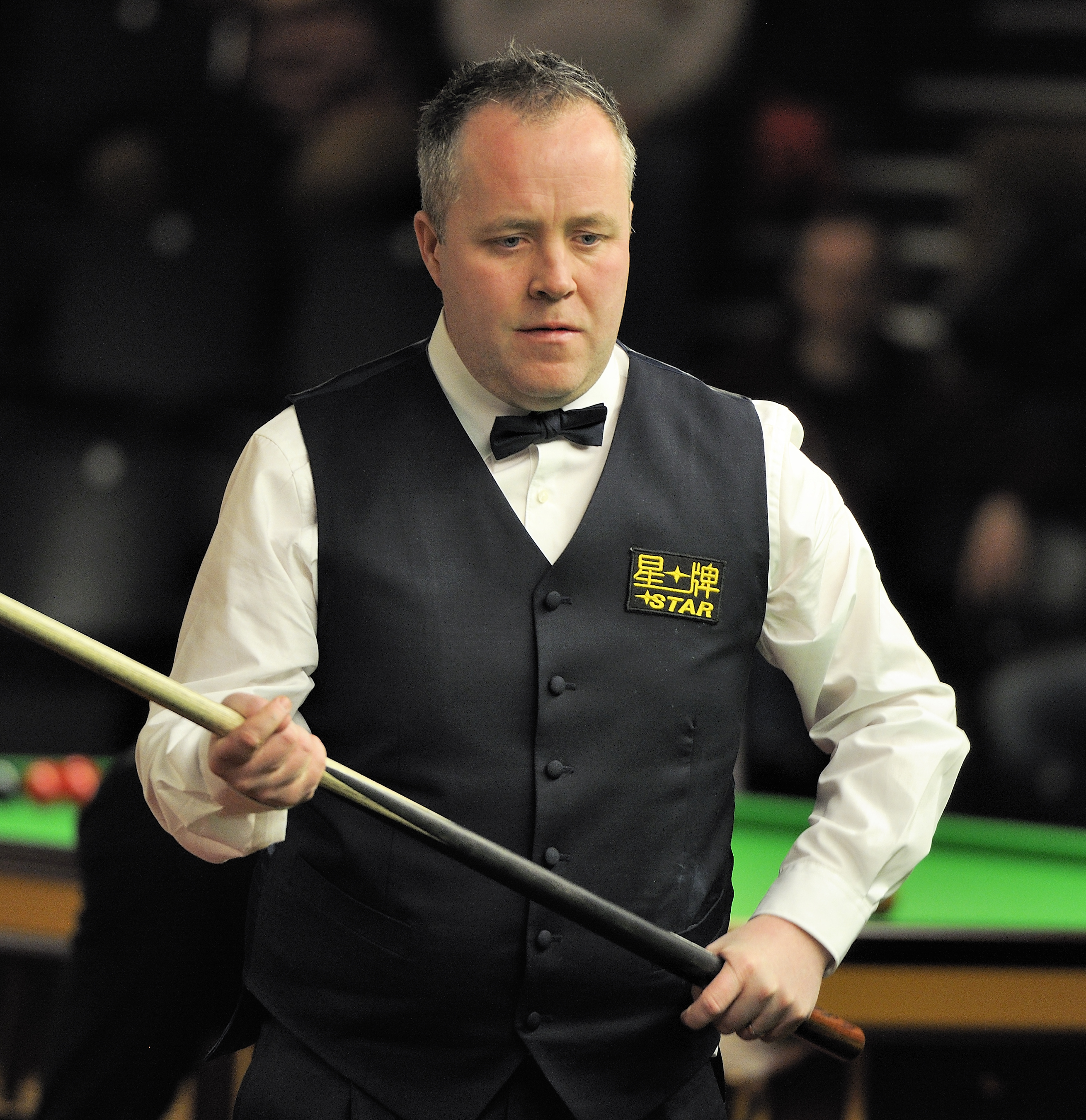 Picture taken in Berlin during the Snooker German Masters in 2014. John Higgins.